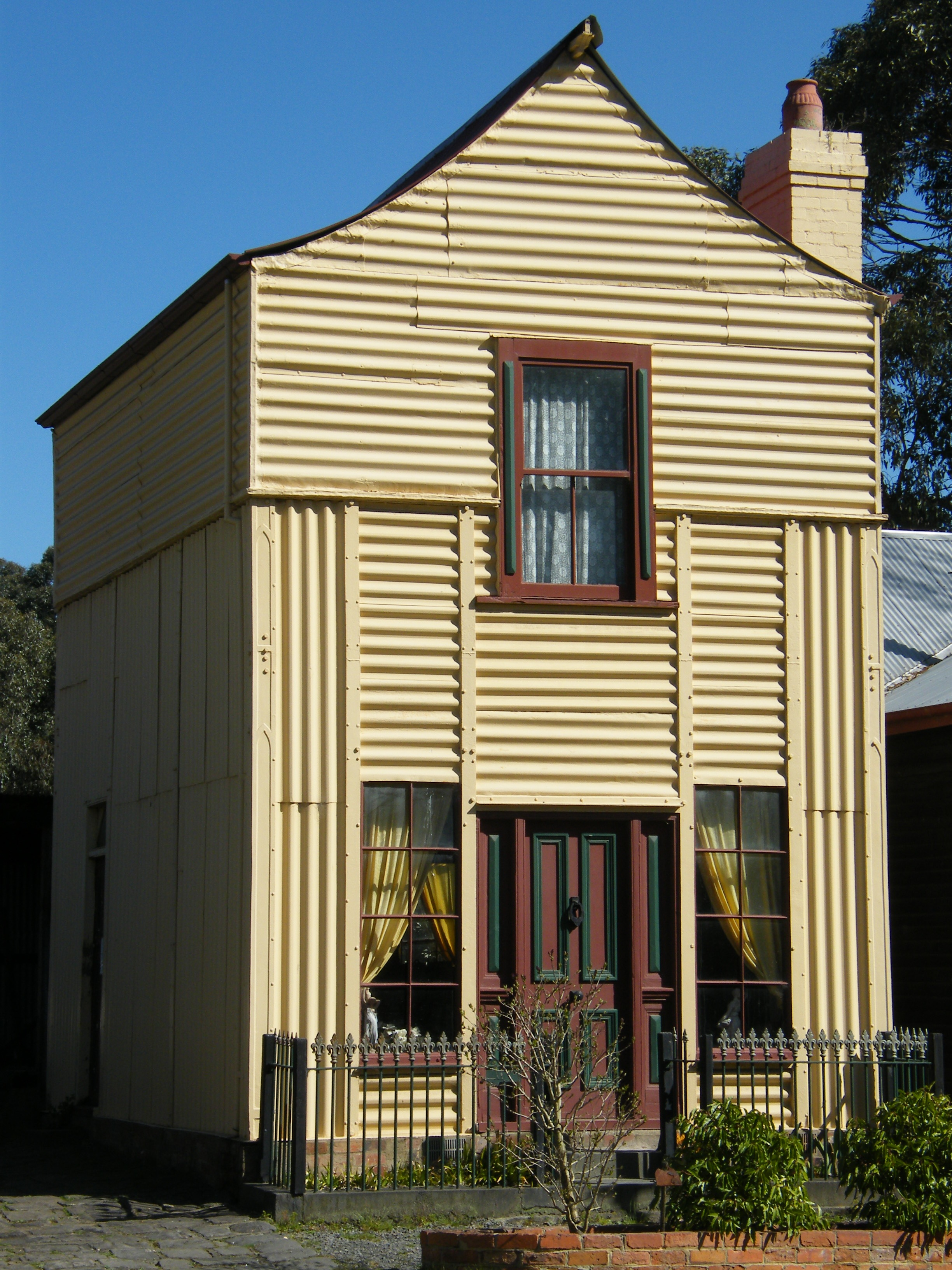 The "Loren" Iron House is a prefabricated iron house imported from England and erected in Melbourne at 62 Curzon Street North Melbourne circa 1853-54. The house was moved to its present location in 1968. It was the first building on site at the Old Gippstown historical park in Moe